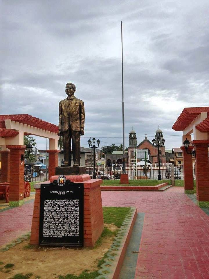 a 10 foot high statue of Epifanio de los Santos in San Isidro, Nueva Ecija was made in recognition of his contributions to arts, culture and the country’s history.